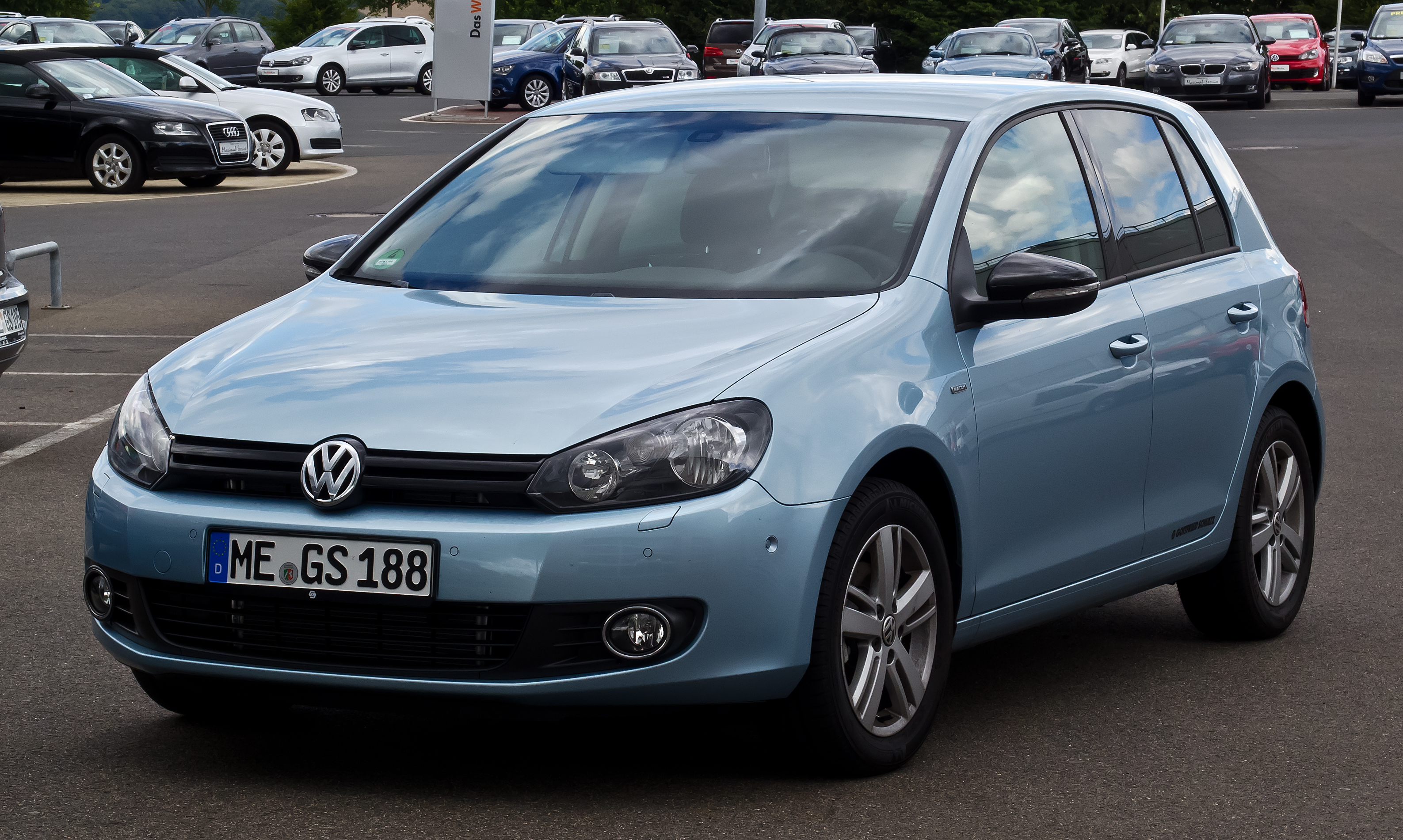 VW Golf 1.4 TSI Match (VI)